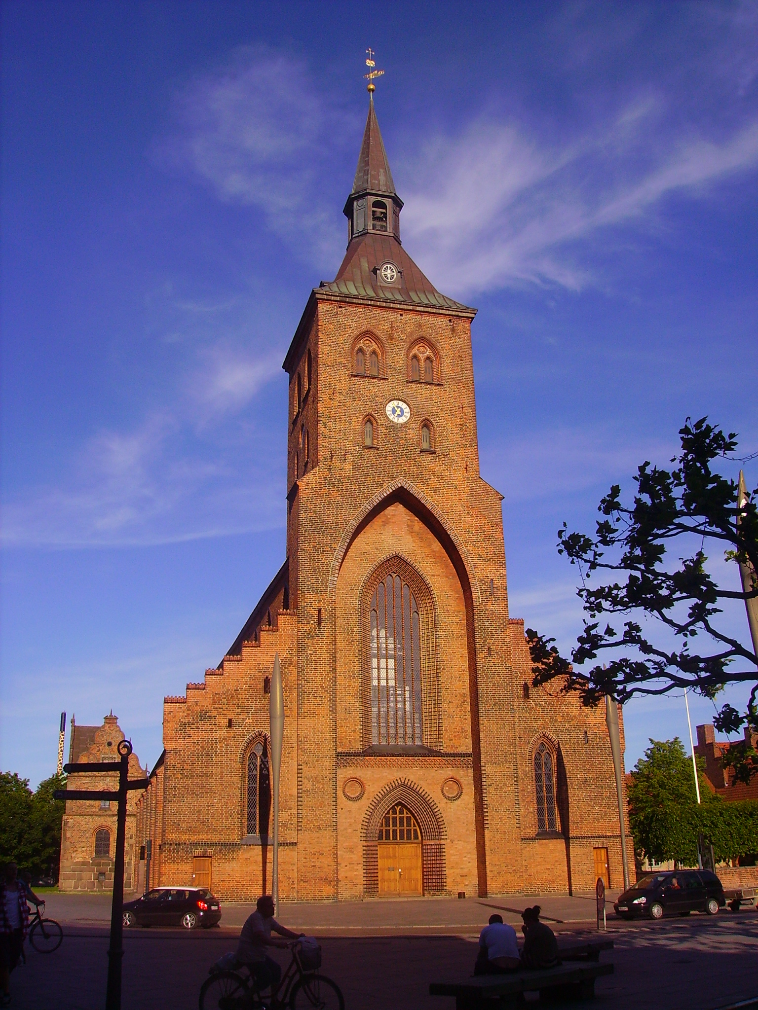 Facade of the Cathedral St. Canute, Odense